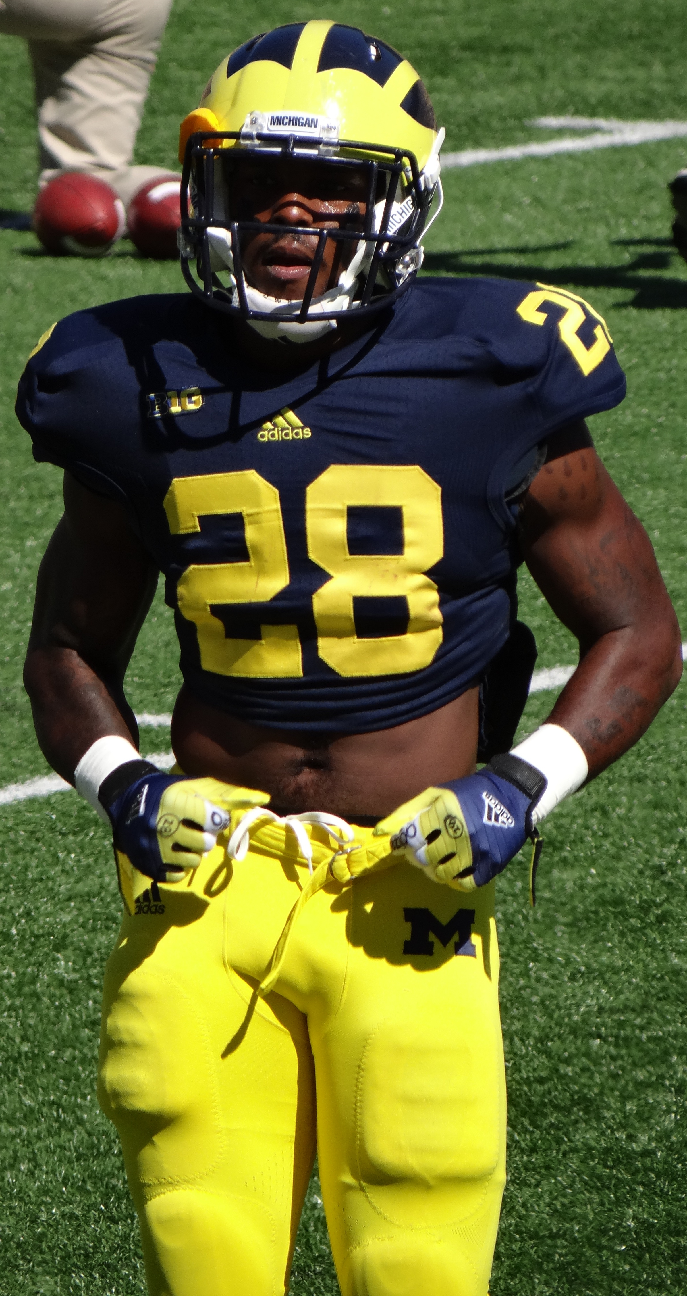 Michigan running back Fitzgerald Toussaint